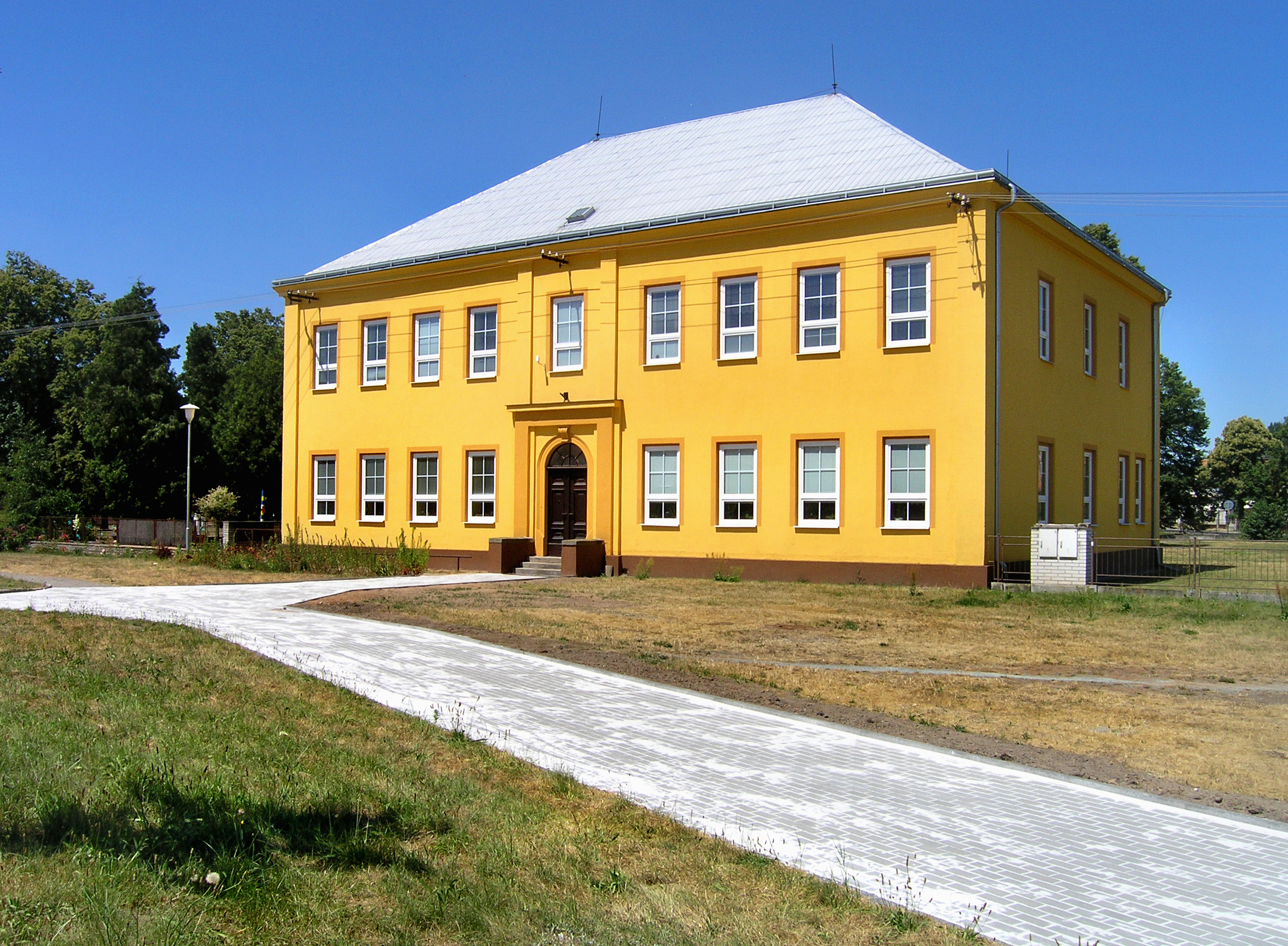 Elementary school and kindergarten in Živanice, Czech Republic